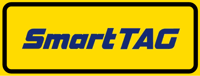 SmartTAG sign